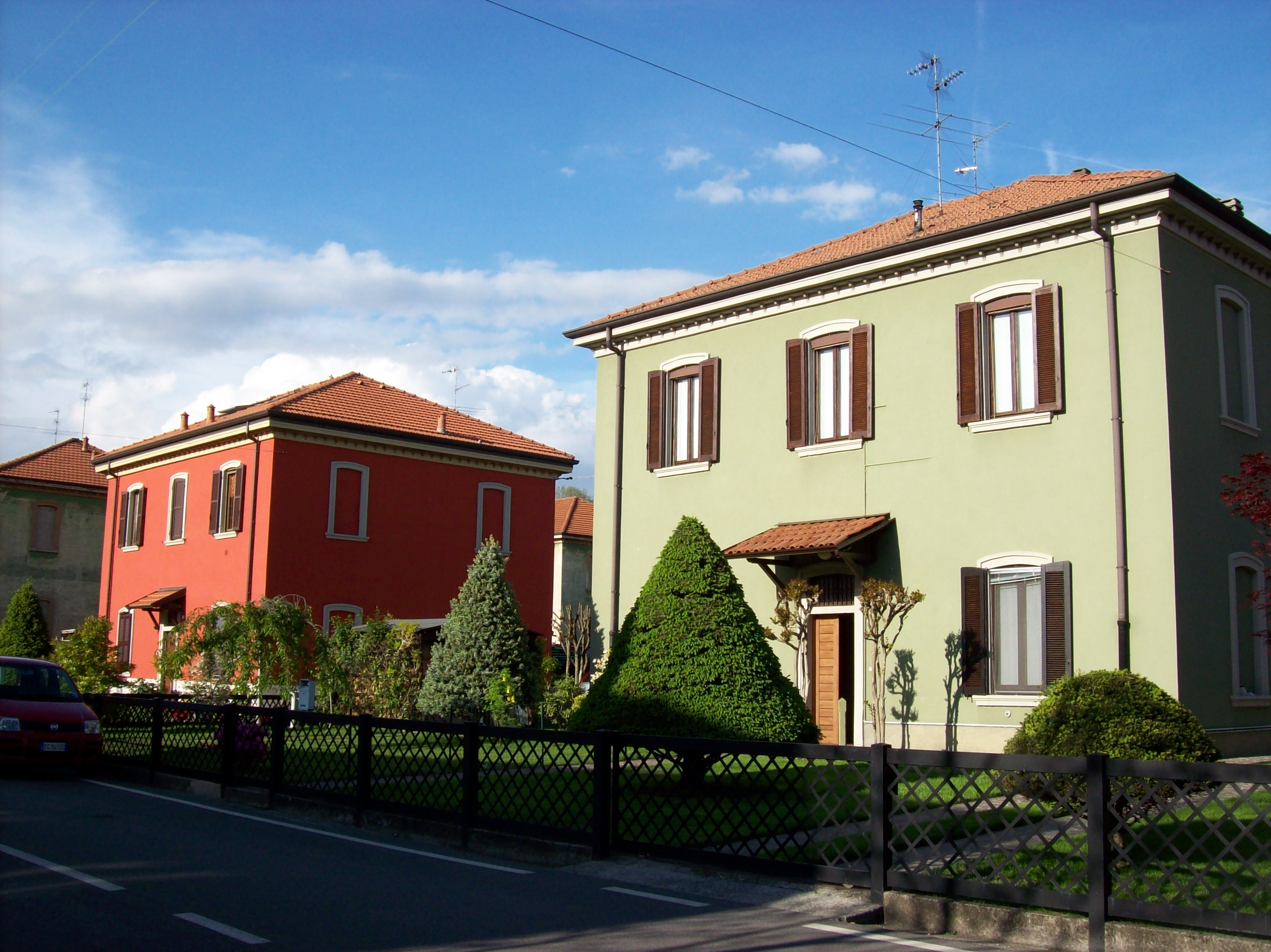 Crespi d'Adda workers' village (Capriate San Gervasio, province of Bergamo, Italy): cotton mill's workers' houses